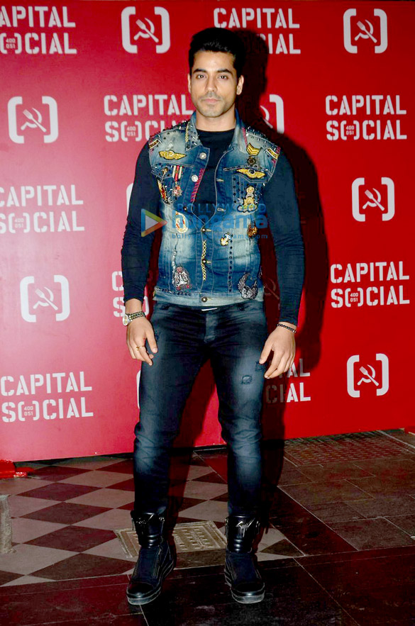 Gulati at the launch of 'Capital Social'